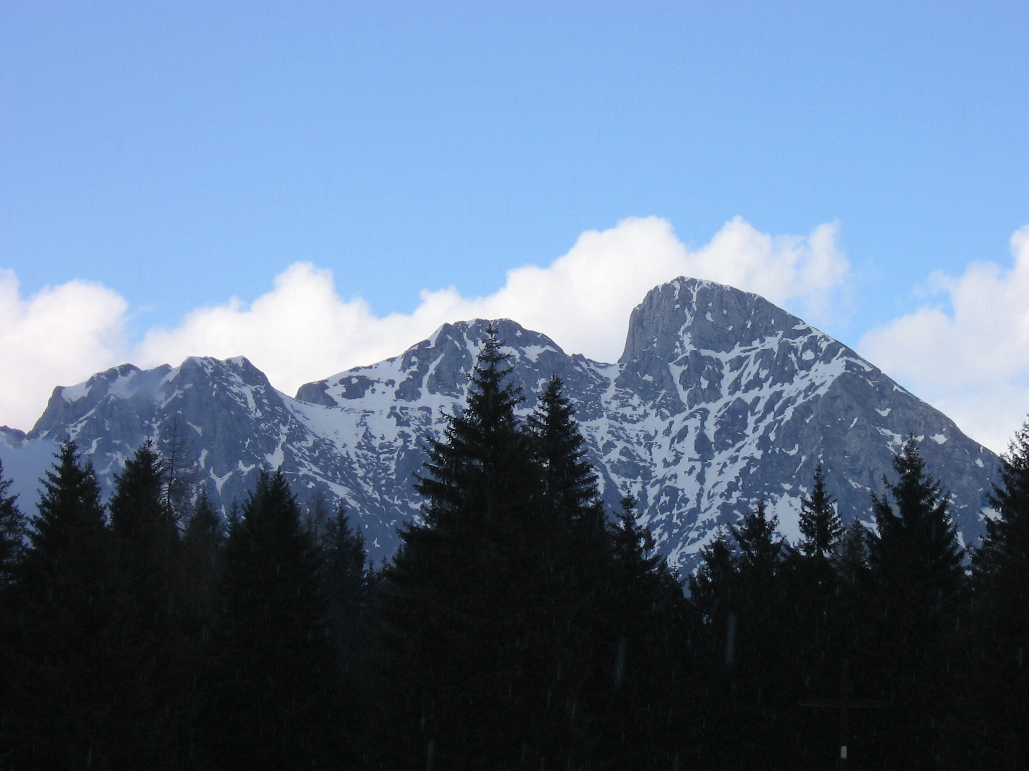 Cimone della Bagozza (2407 m), an important peak of the Eastern section of Bergamo Alps, seen from Colle Mignone pass (1526 m) in early Spring.